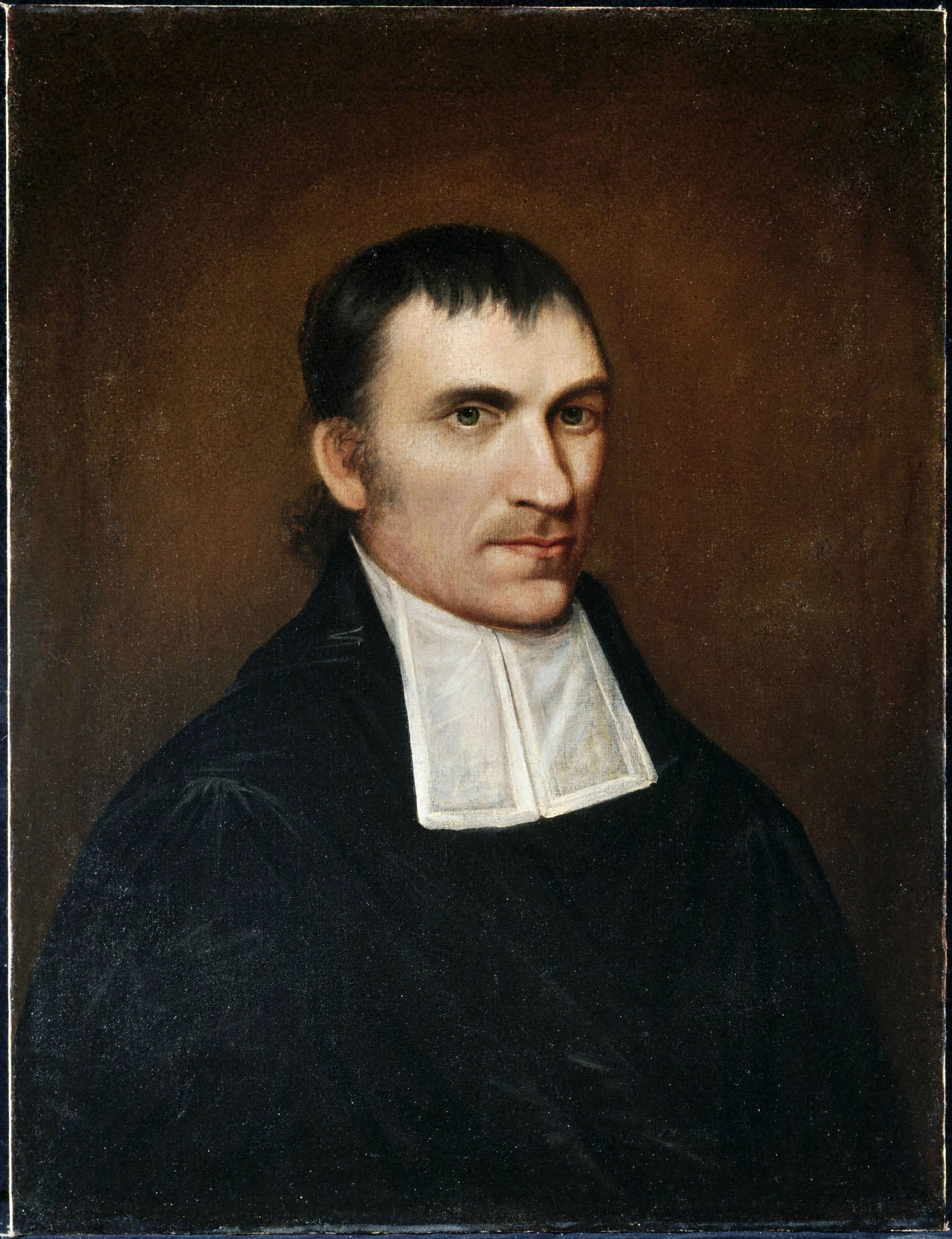 Ira Condict